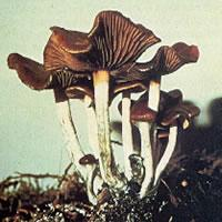 Shrooms from